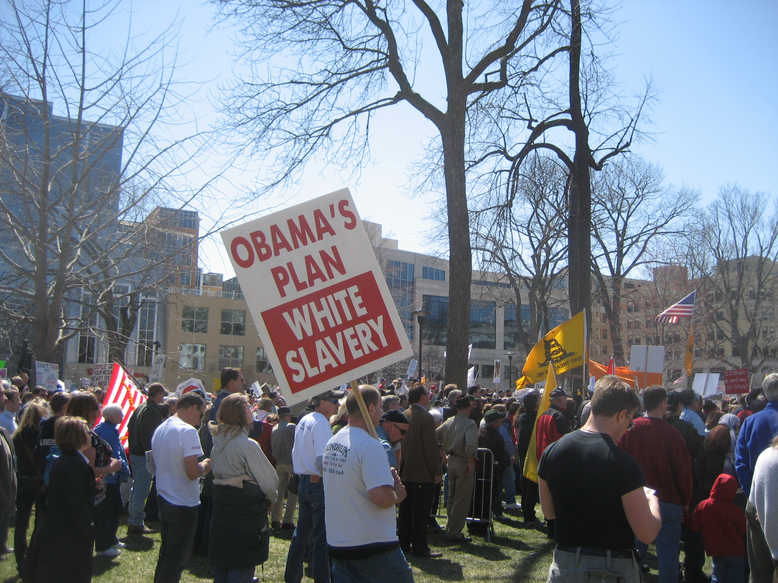 Sign from Madison, WI Tea Party. Sign Says "Obama's Plan White Slavery"